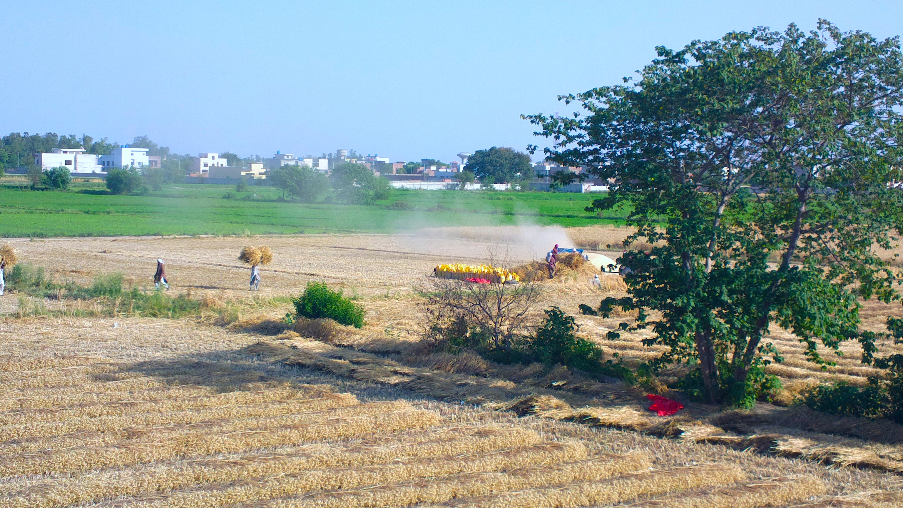 A wheat field in Punjab, Pakistan